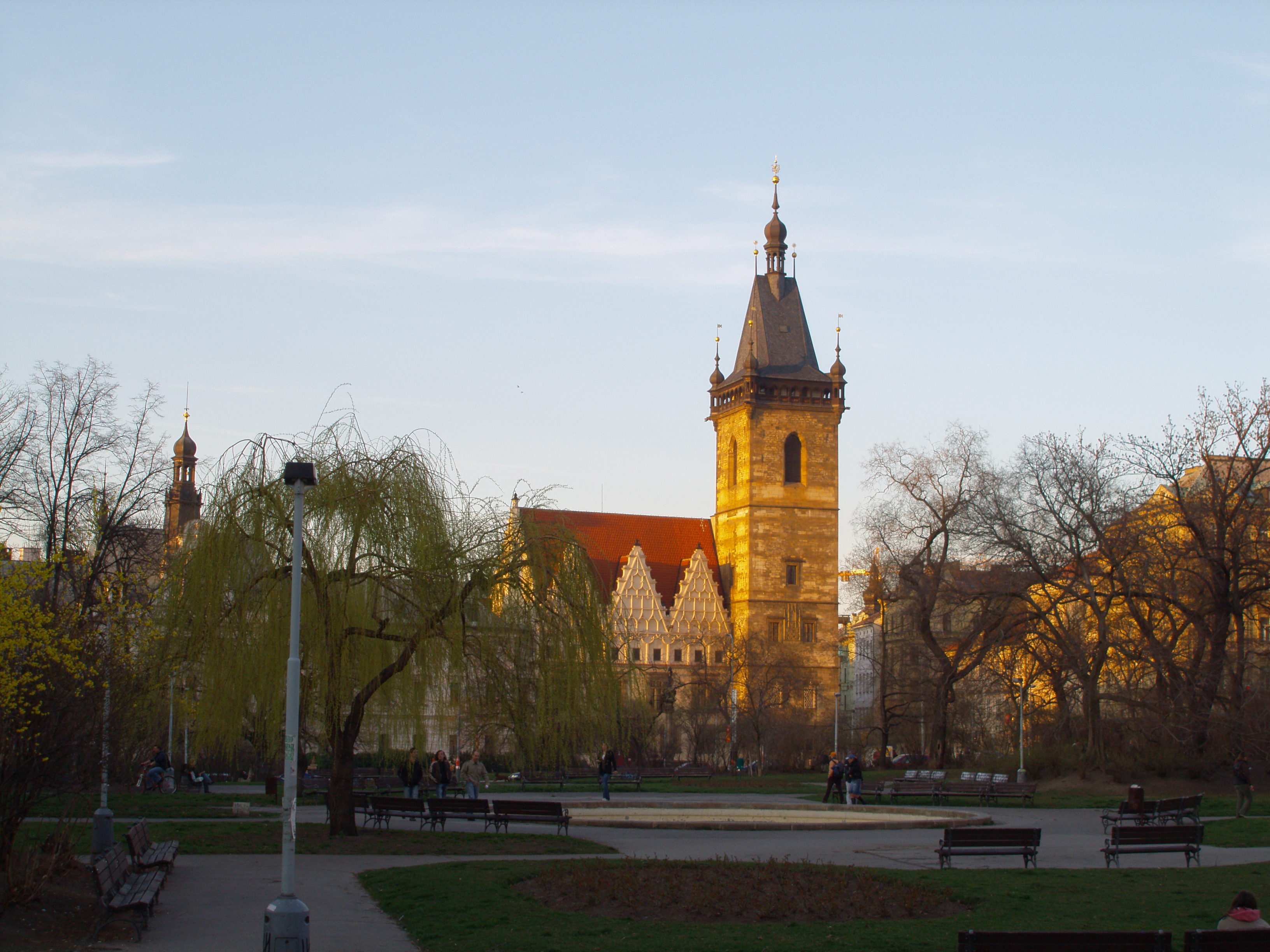 New town City Hall in Prague, Czech Republic